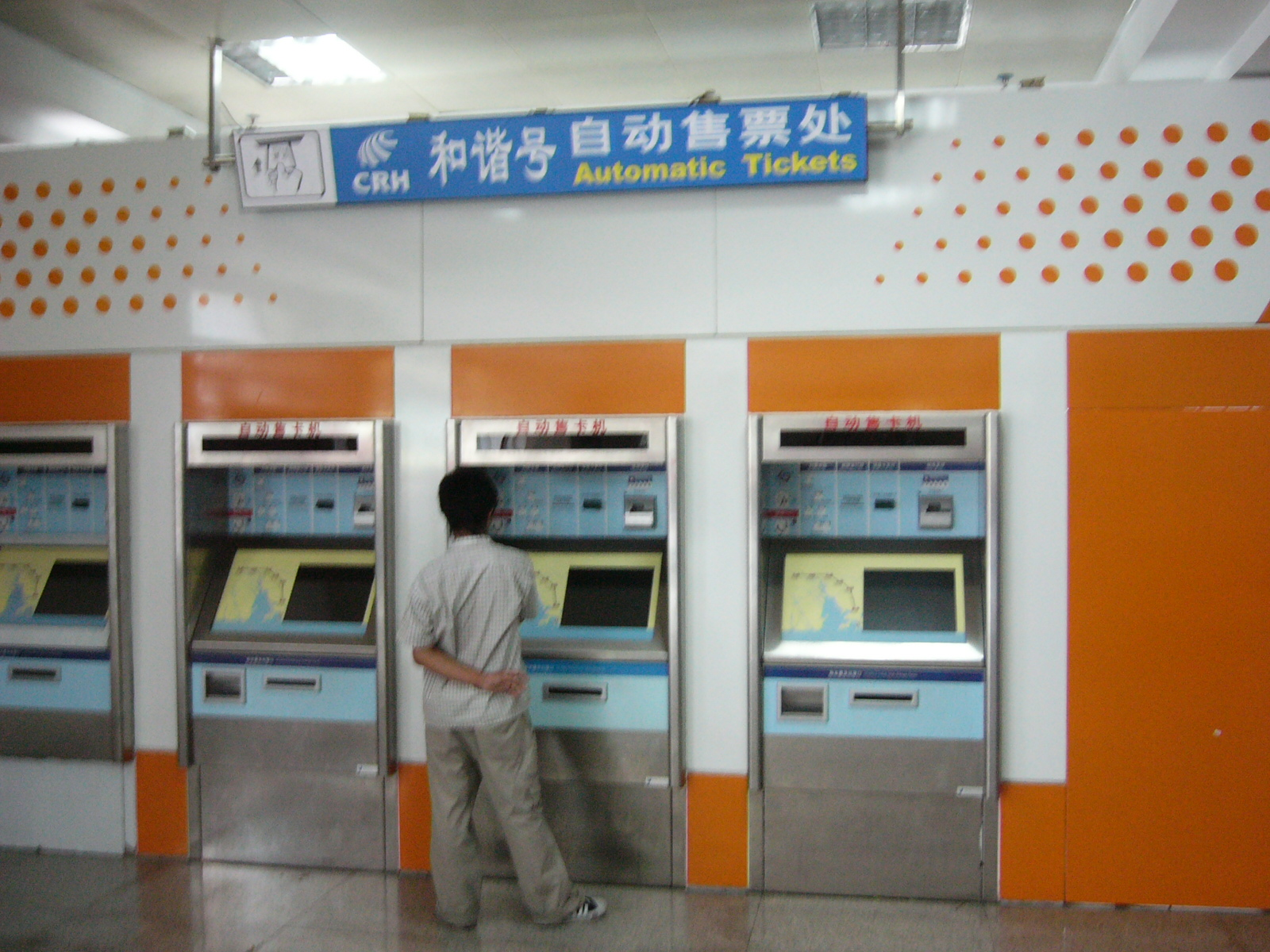 Ticket selling machines at Shilong Station, Guangzhou-Shenzhen Railway, China